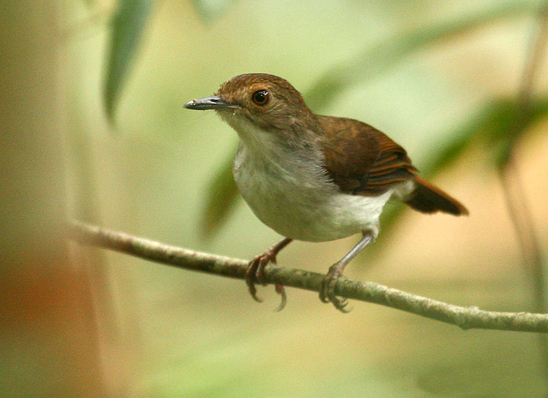 A White-chested Babbler (Trichastoma rostratum) photographed in Bako National Park, Sarawak, Borneo, Malaysia.